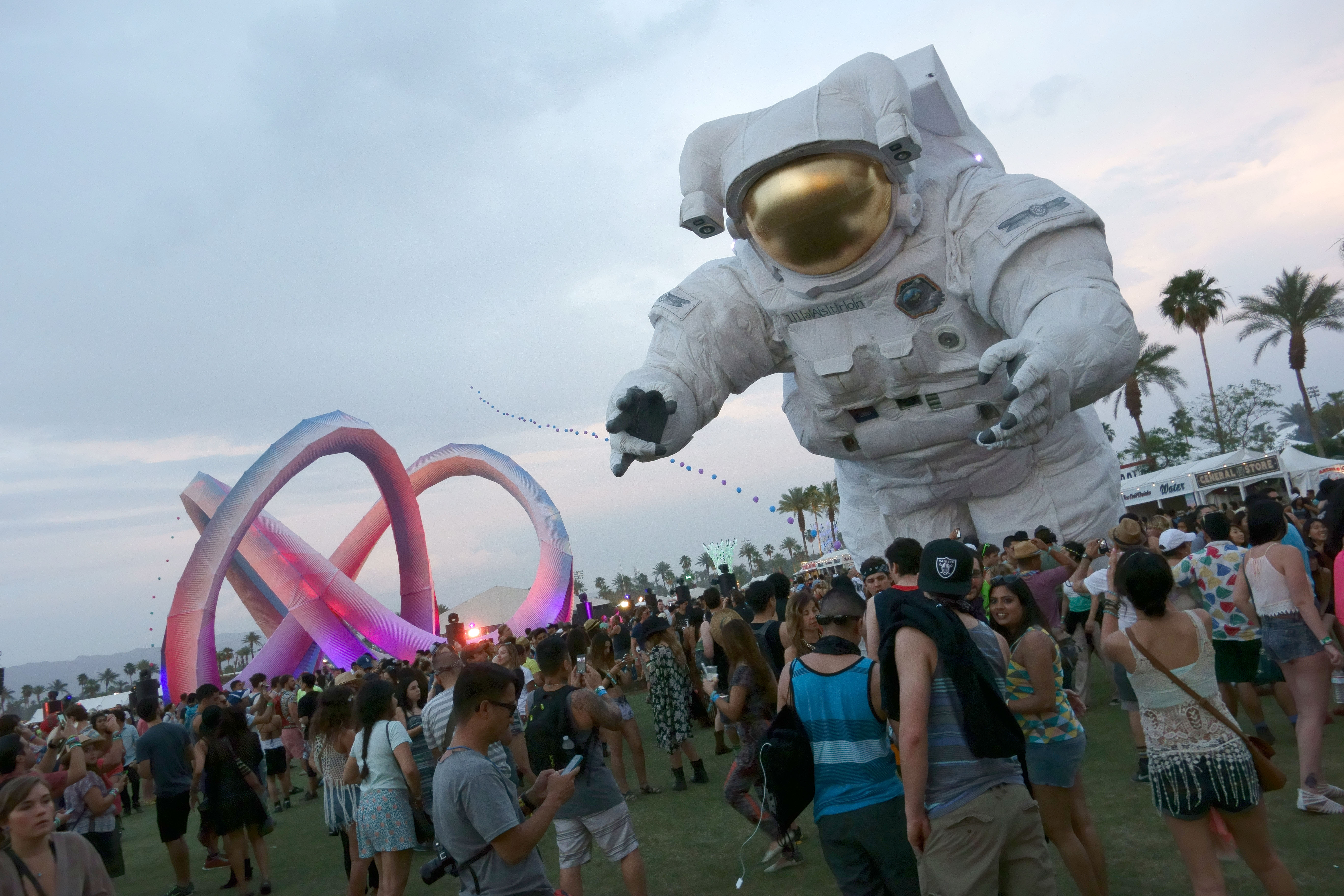 Two art installations from Coachella 2014, weekend 2: Lightweaver, by Stereo-bot; and Escape Velocity, the #CoachellaAstronaut, by Poetic Kinetics